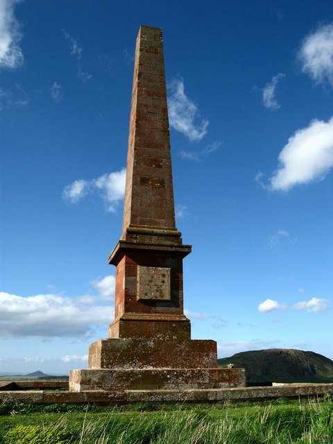 Balfour Monument Located by the roadside on an escarpment overlooking Traprain Law, the Balfour Monument is an obelisk built of red sandstone and dedicated to James Balfour, the father of both British Prime Minister Arthur Balfour. 'Erected to the memory of James Maitland Balfour Esq. of Whittingeham, Major Commandant of the East Lothian Yeomanry Cavalry by the officers and non-commissioned officers of that Corps in testimony of their great respect and esteem of him as a Commanding Officer, of their affectionate regard for him as an amiable and able country gentleman and of their deep and lasting regret for his premature removal from among them. MDCCCLVIII'